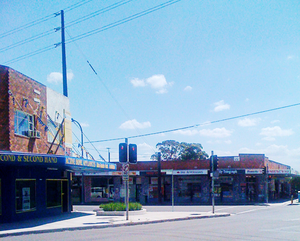 Own Work.